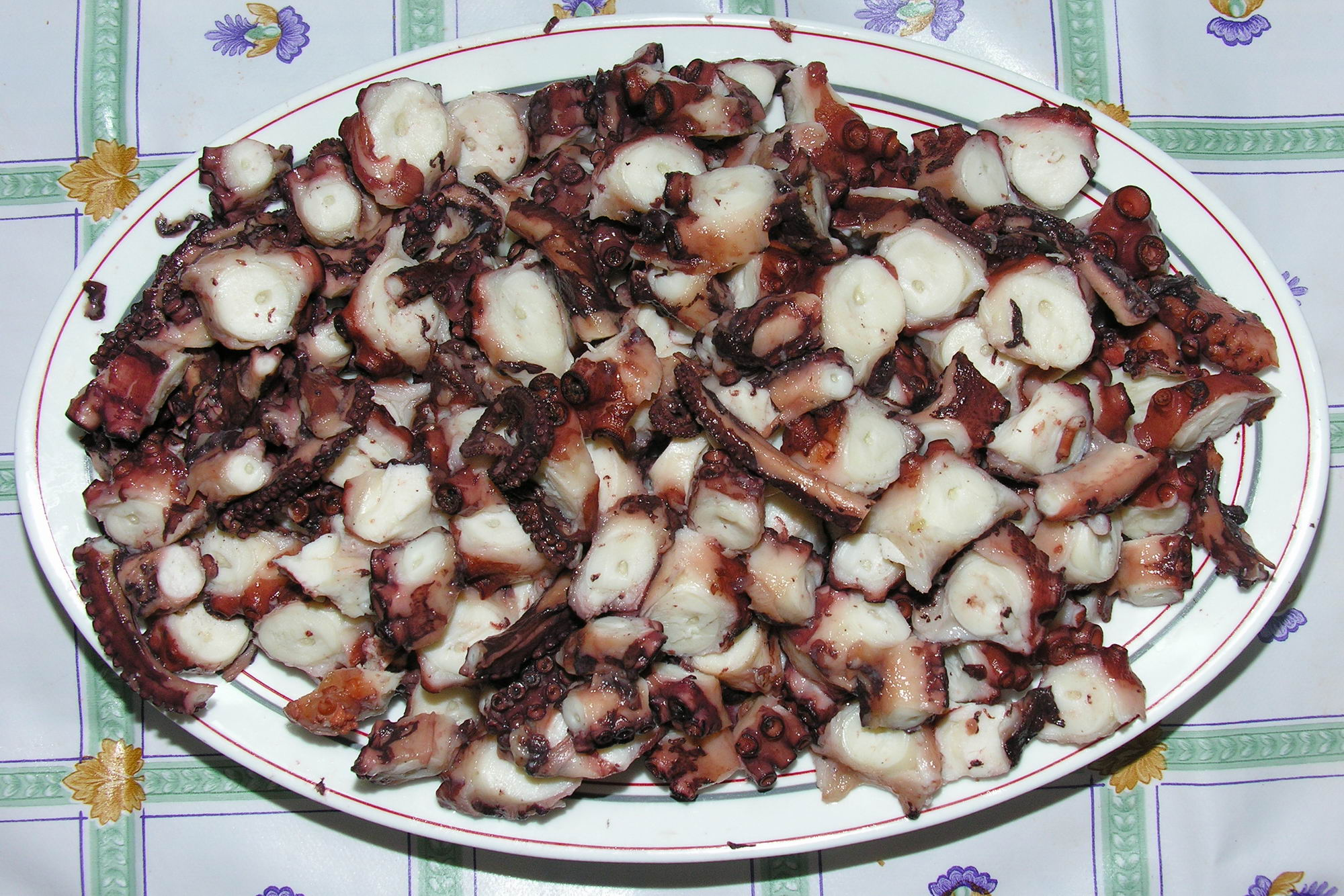 Octopus, Oroso, Galicia Publish by= Luis Miguel Bugallo Sánchez.